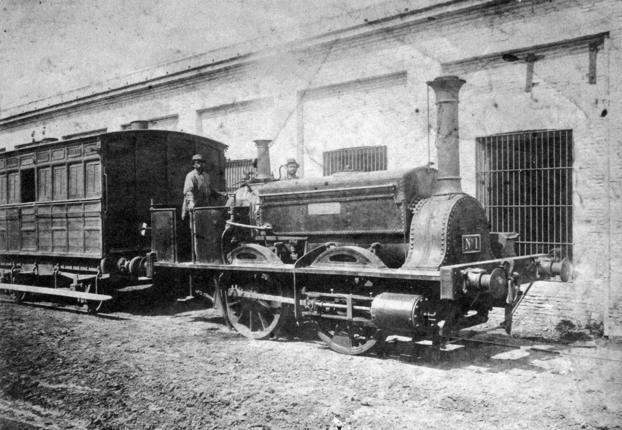 La Porteña locomotive. On August 29, 1857, it made its inaugural trip from Del Parque station to Floresta in Buenos Aires, Argentina.